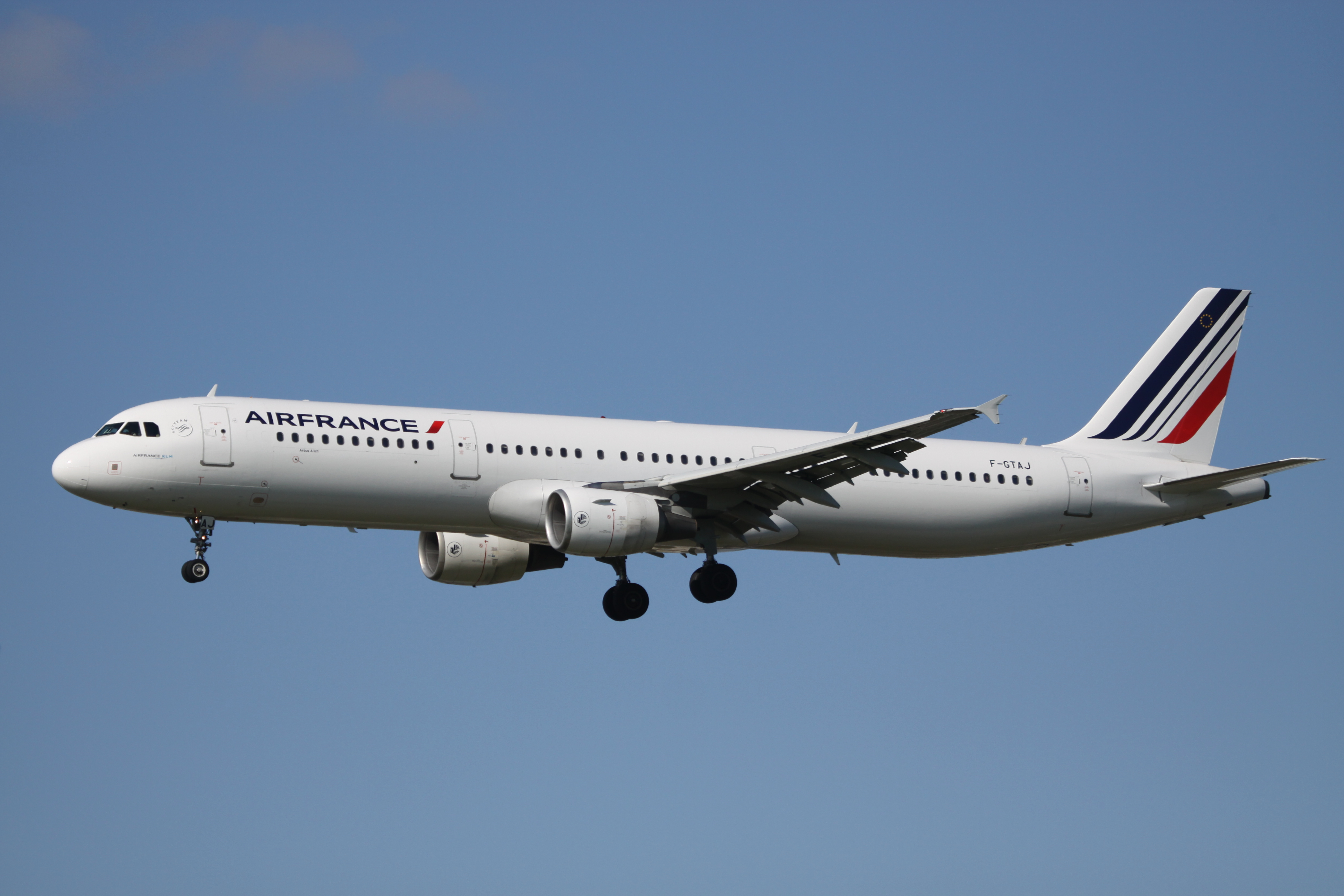 At London Heathrow